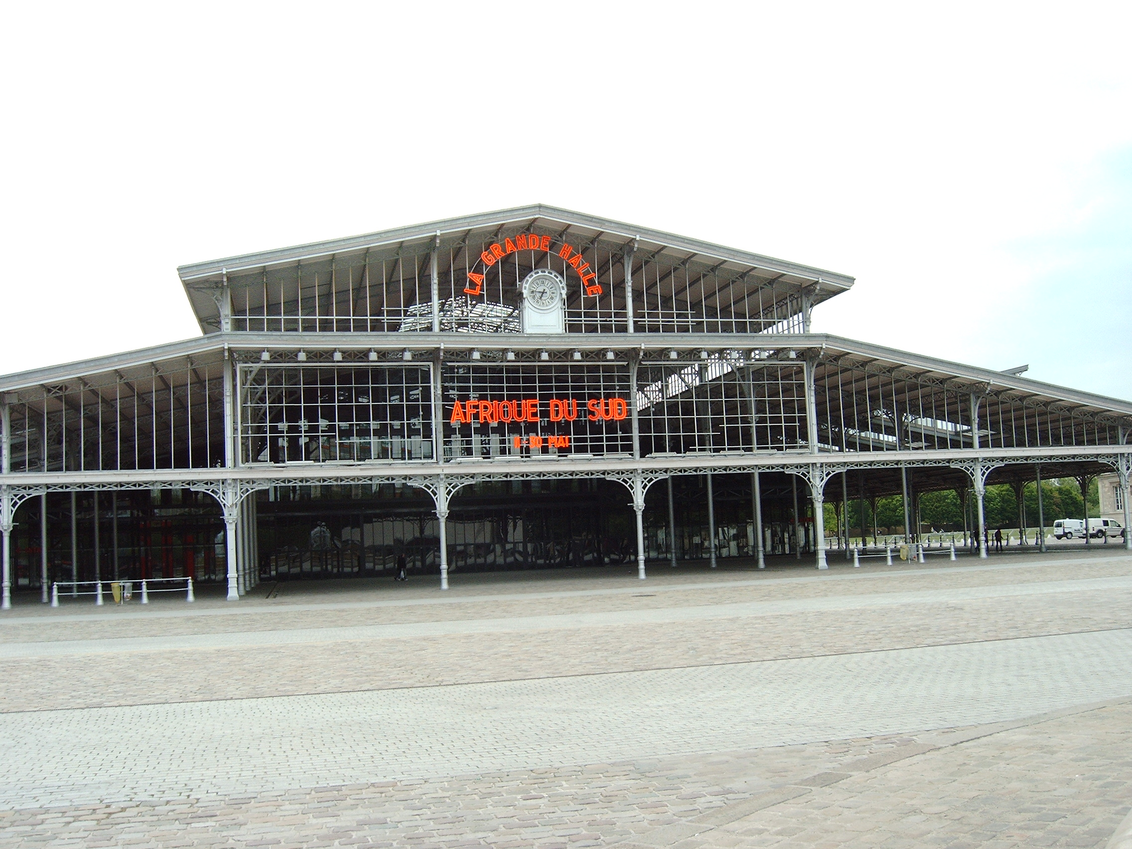 Grande halle de La Villette in Paris.